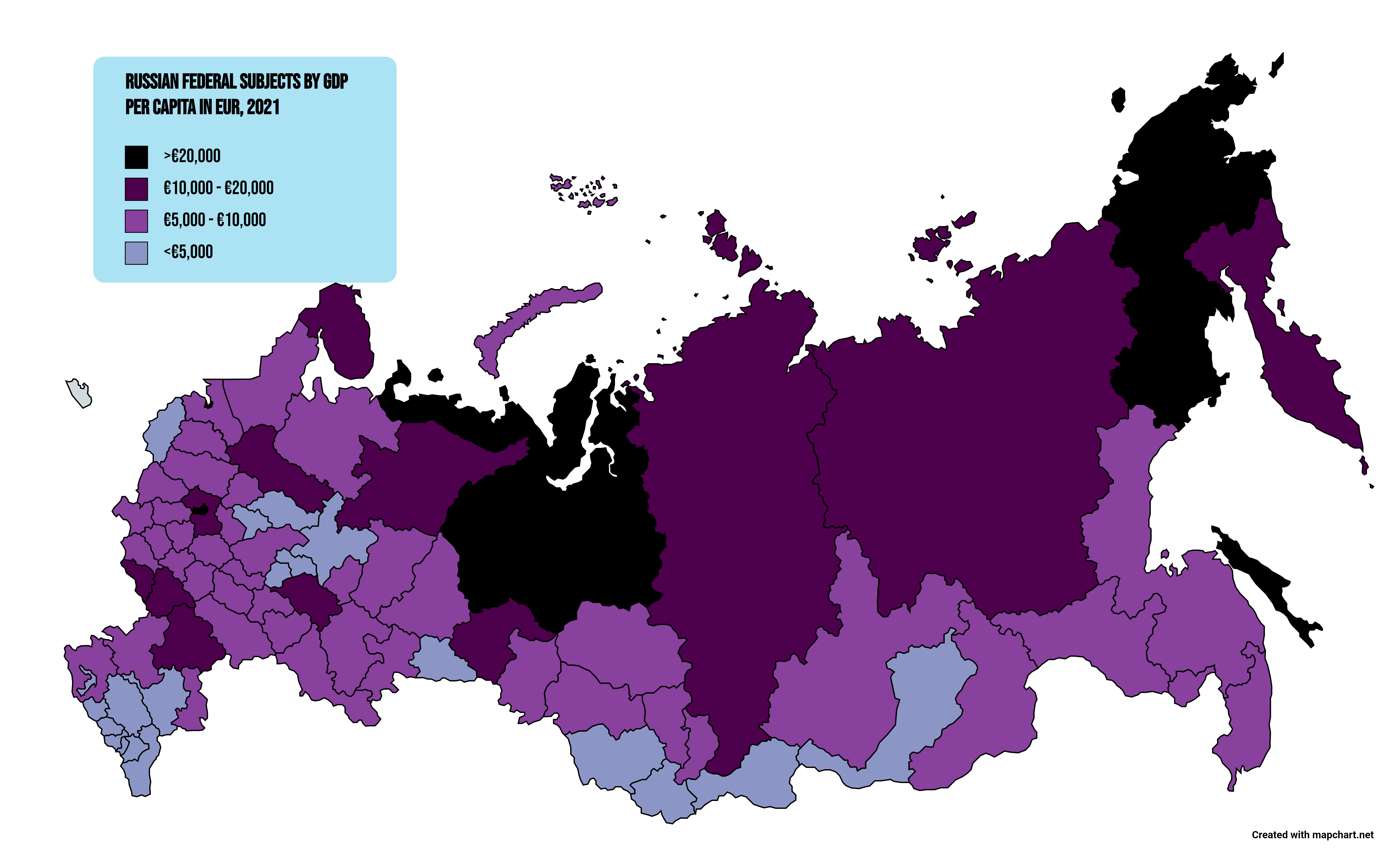 Federal subjects of Russia by Nominal GDP per capita in 2018